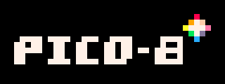 Logo for the Pico-8 fantasy video game console